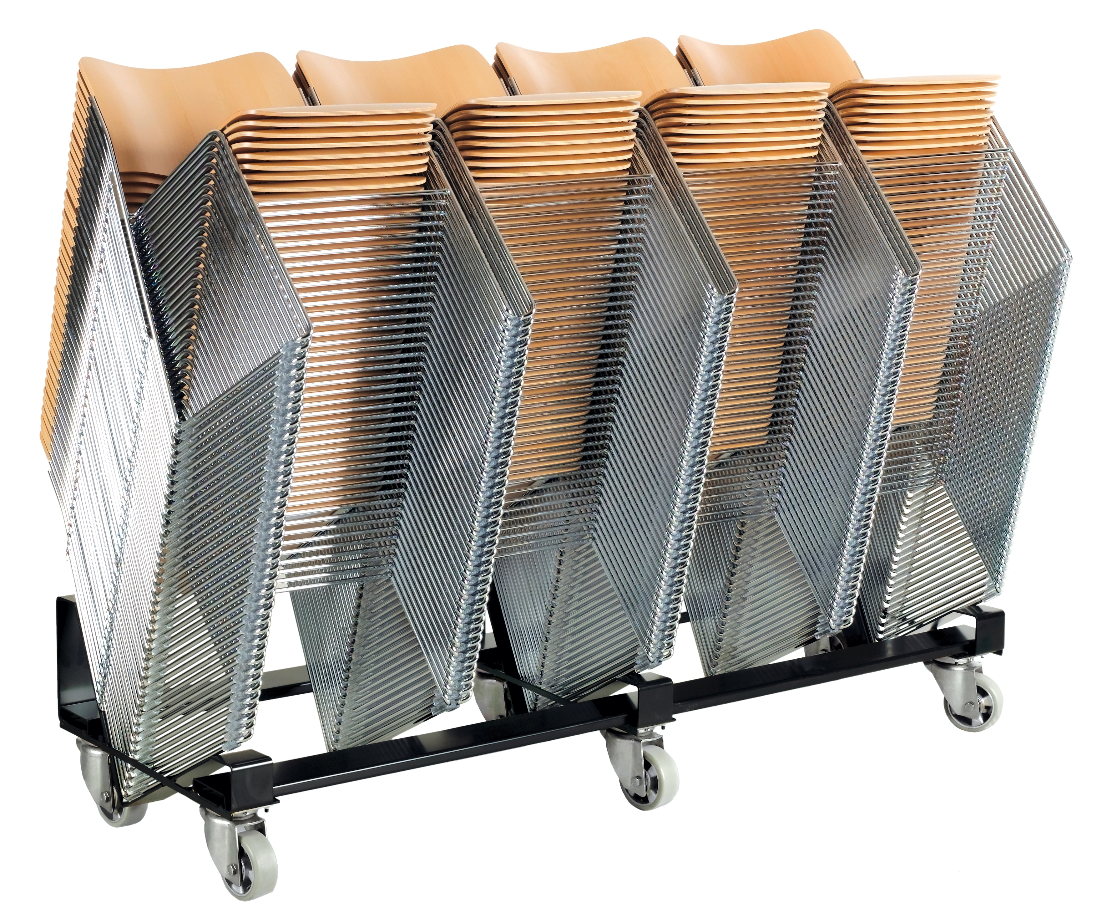 40/4 stack of quadruple ganged chairs.